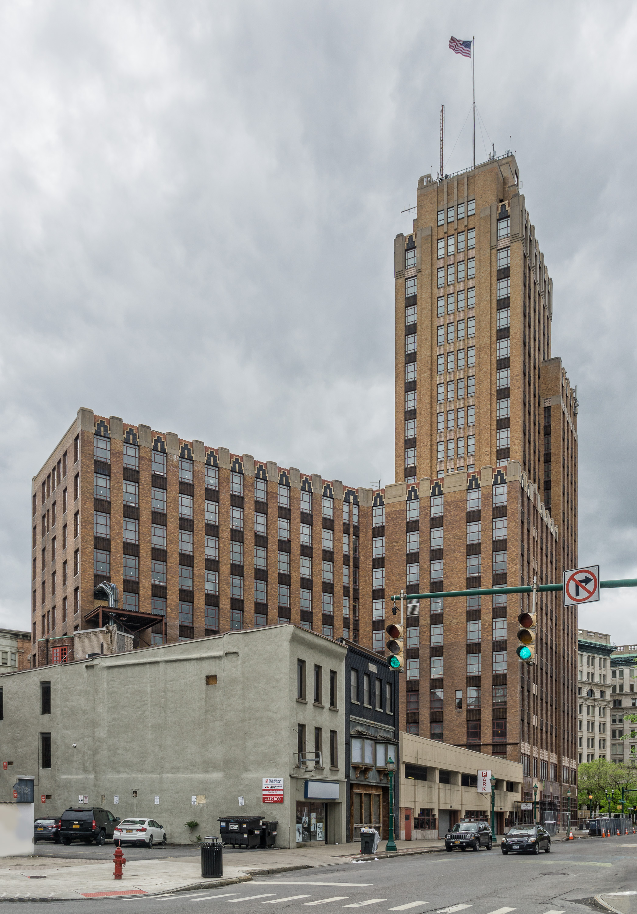 State Tower Building viewed from Montgomery and Water street. Syracuse, New York